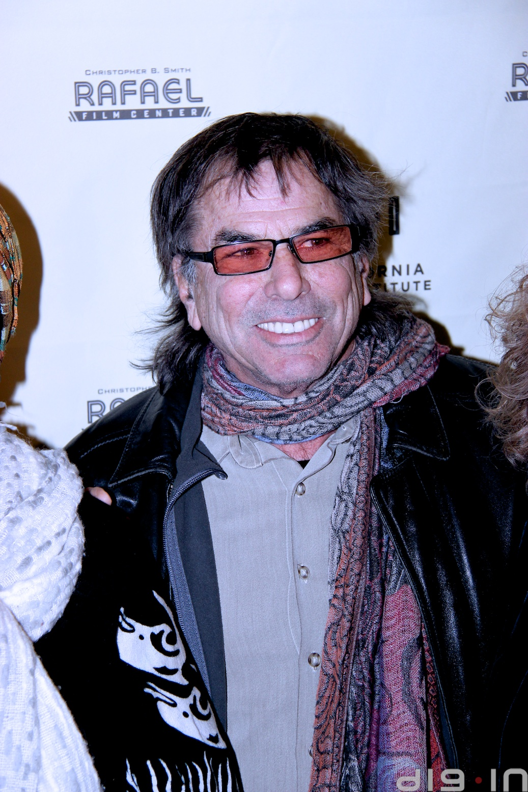 Mickey Hart hosted of The Grateful Dead Hosts a special screening of film "Sweet Dreams" by Lisa & Rob Fruchtman in Bay Area. December 8, 2013